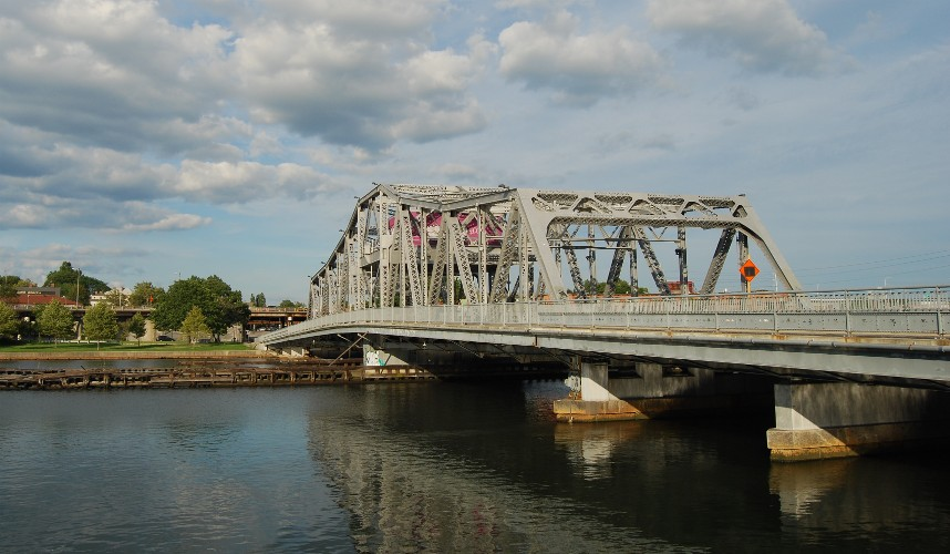 Point Street Bridge (built 1927) in Providence, Rhode Island spans the Providence River. Photo taken from the Davol Square side towards Wickenden Street, with the old Interstate 195 elevated roadway on the far side of the river